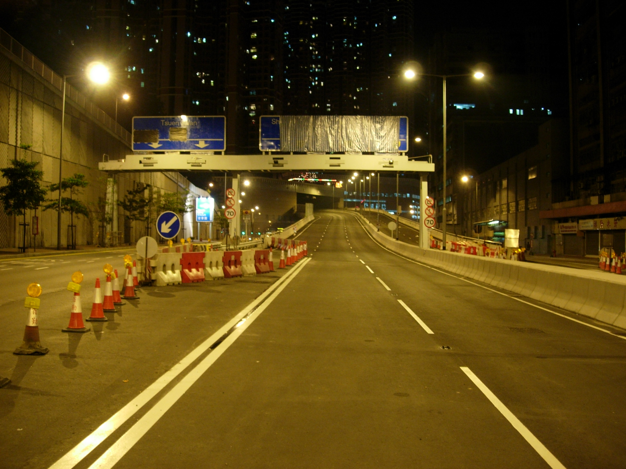 Cheung Pei Shan Road